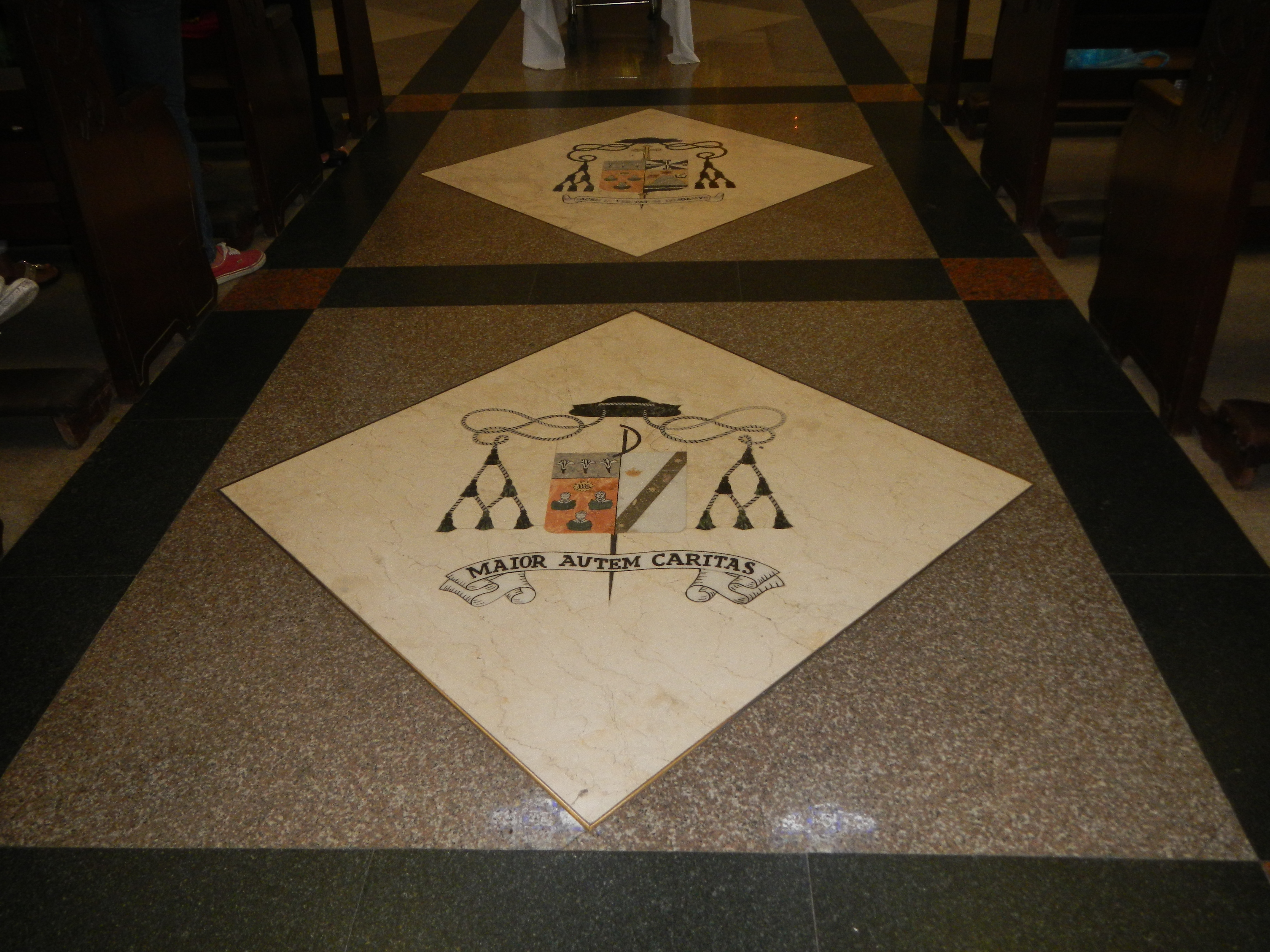 Barangay [1] Poblacion, beside Talisay, Balanga City, Bataan, Bataan Province Interior of the Diocesan Shrine and Cathedral Parish of Saint Joseph, Balanga City and its Category:Sacristy, Santuario, Columbarium, Parish Formation Center, Rectory and Convent (Balanga Cathedral) (along Capitol Drive, to Balanga City, Bataan National Road accessed from and along the Bataan Provincial Expressway also known as the Roman Expressway or the Roman Superhighway, connecting to Olongapo-Gapan Road).